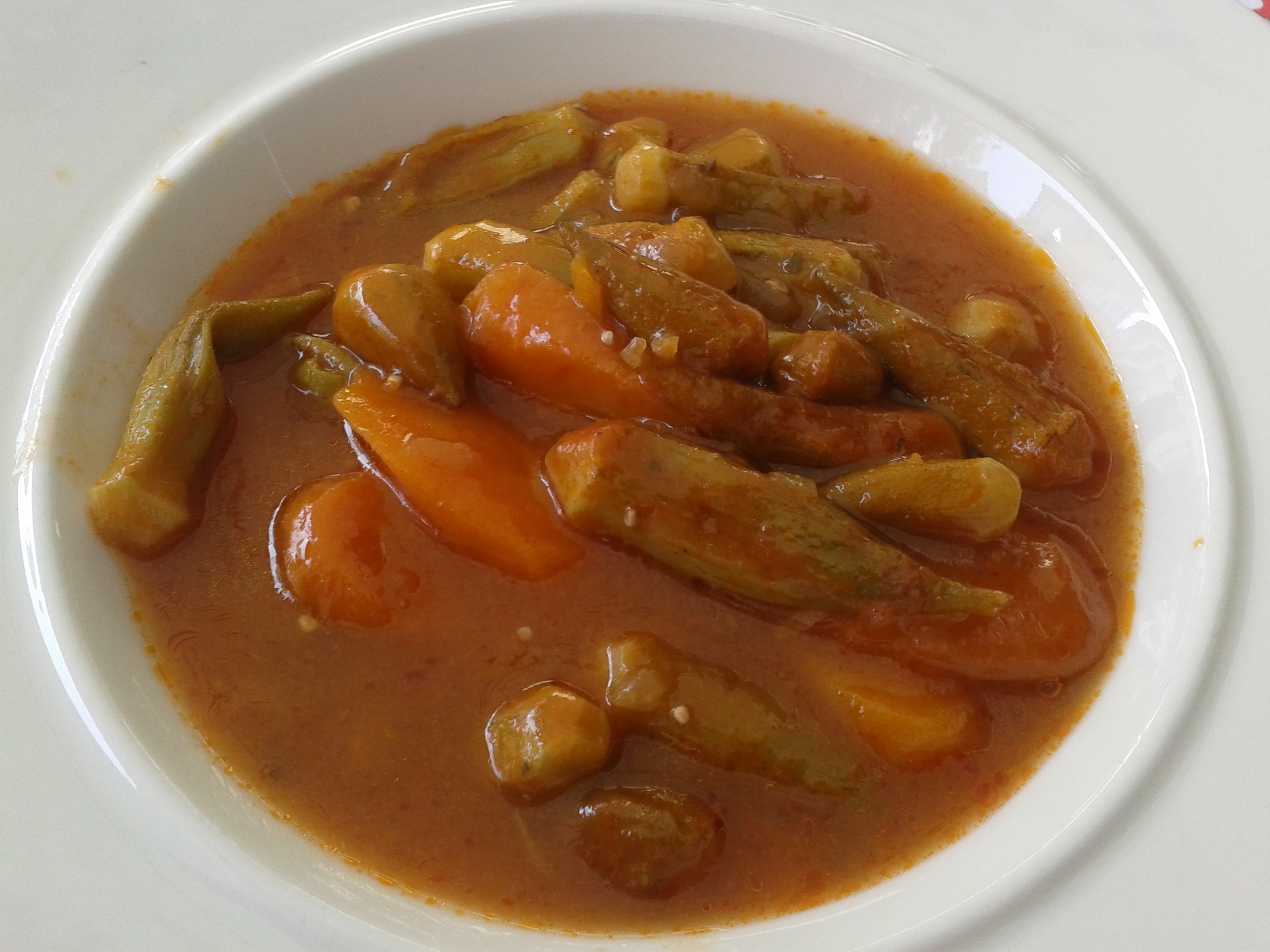 Bamya stew dish in Ankara.